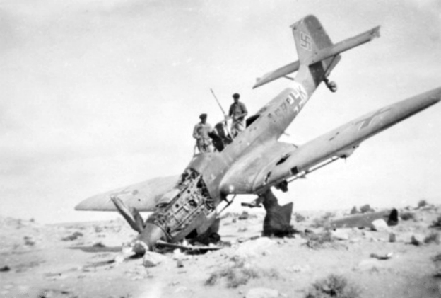 Two members of the Australian 9th Division Cavalry Regiment survey the wreck of a German Junkers Ju 87D Stuka dive bomber of Sturzkampfgeschwader 3 (StG 3, 3rd Dive Bomber Wing).